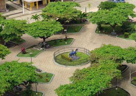 Public Clock at CAlceta city